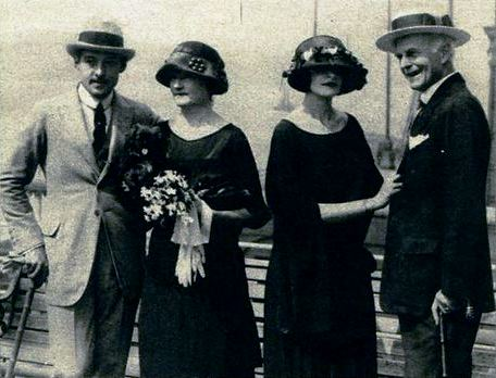 Rudolph Valentino, Mrs. Richard Hudnut, Winifred Hudnut aka Natacha Rambova, and Richard Hudnut, on the deck of the steamship Olympia prior to Rambova's departure for Europe, on page 27 of the December 1922 Screenland.